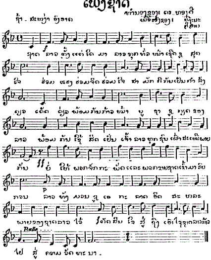 Pheng Xat Lao (1975)